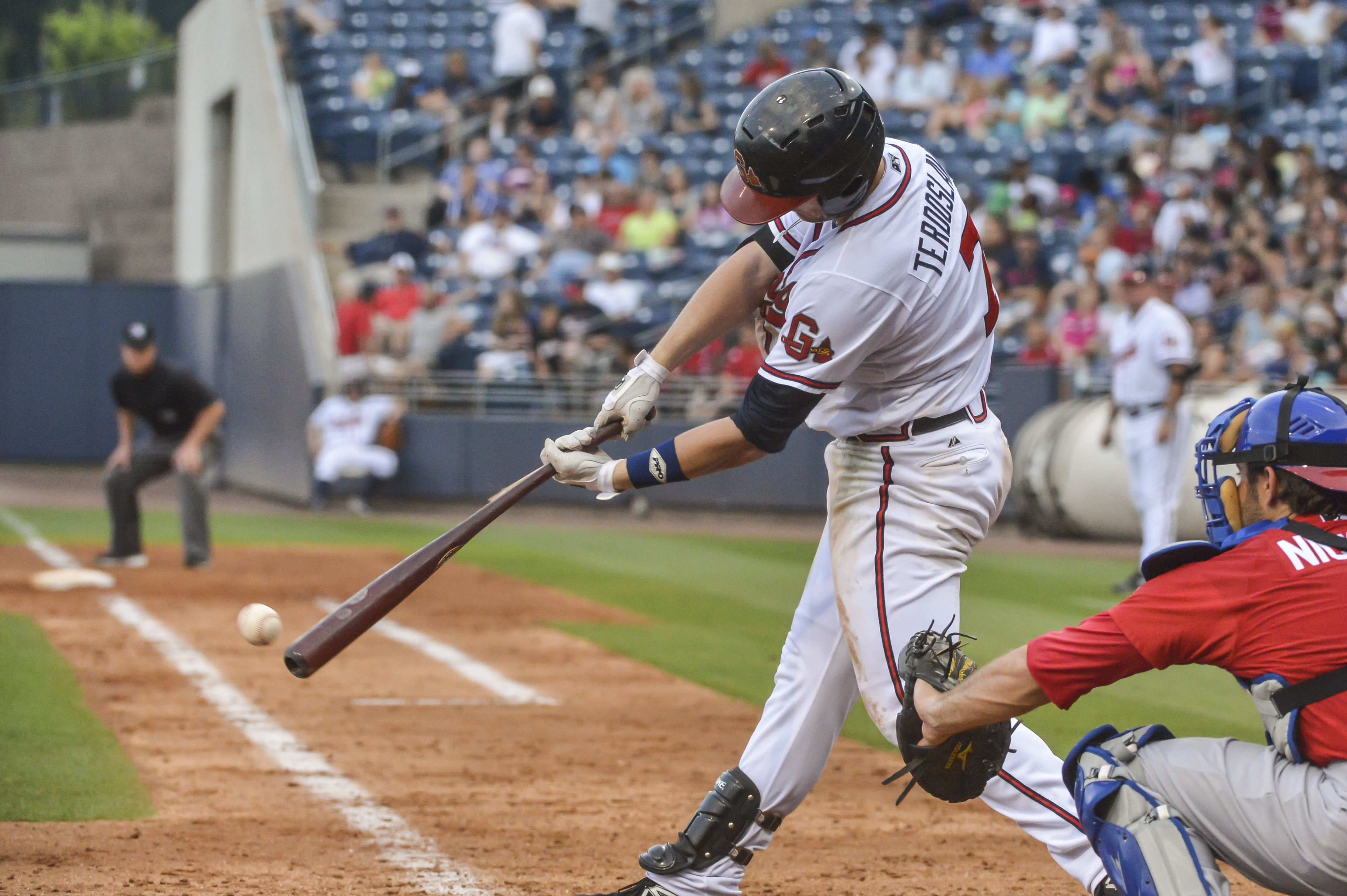 Gwinnett Braves' Outfielder, Joey Terdoslavich, broken-bat single to right field against the Buffalo Bisons (triple-A affiliate of the Cleveland Indians) on 6/27/13 at Coolray Field in Gwinnett County, GA. - Photo by Steve Hampton